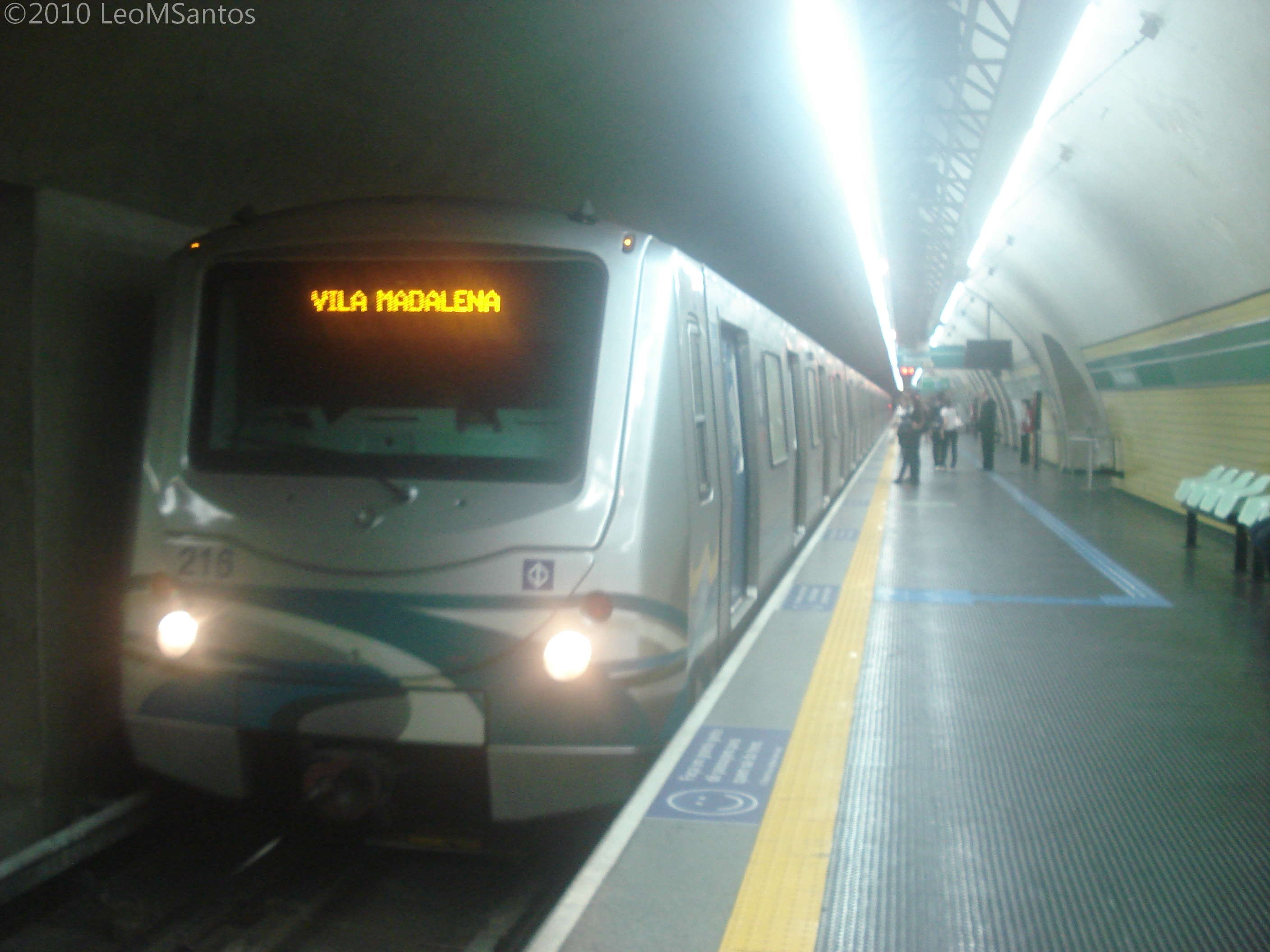 Train Alstom A96 stopping on the Vila Madalena Station from Line 2 - Green of São Paulo Metro.